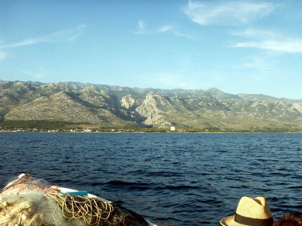 Starigrad and the Velebit mountain range in Croatia, seen from a fishing boat towards north.